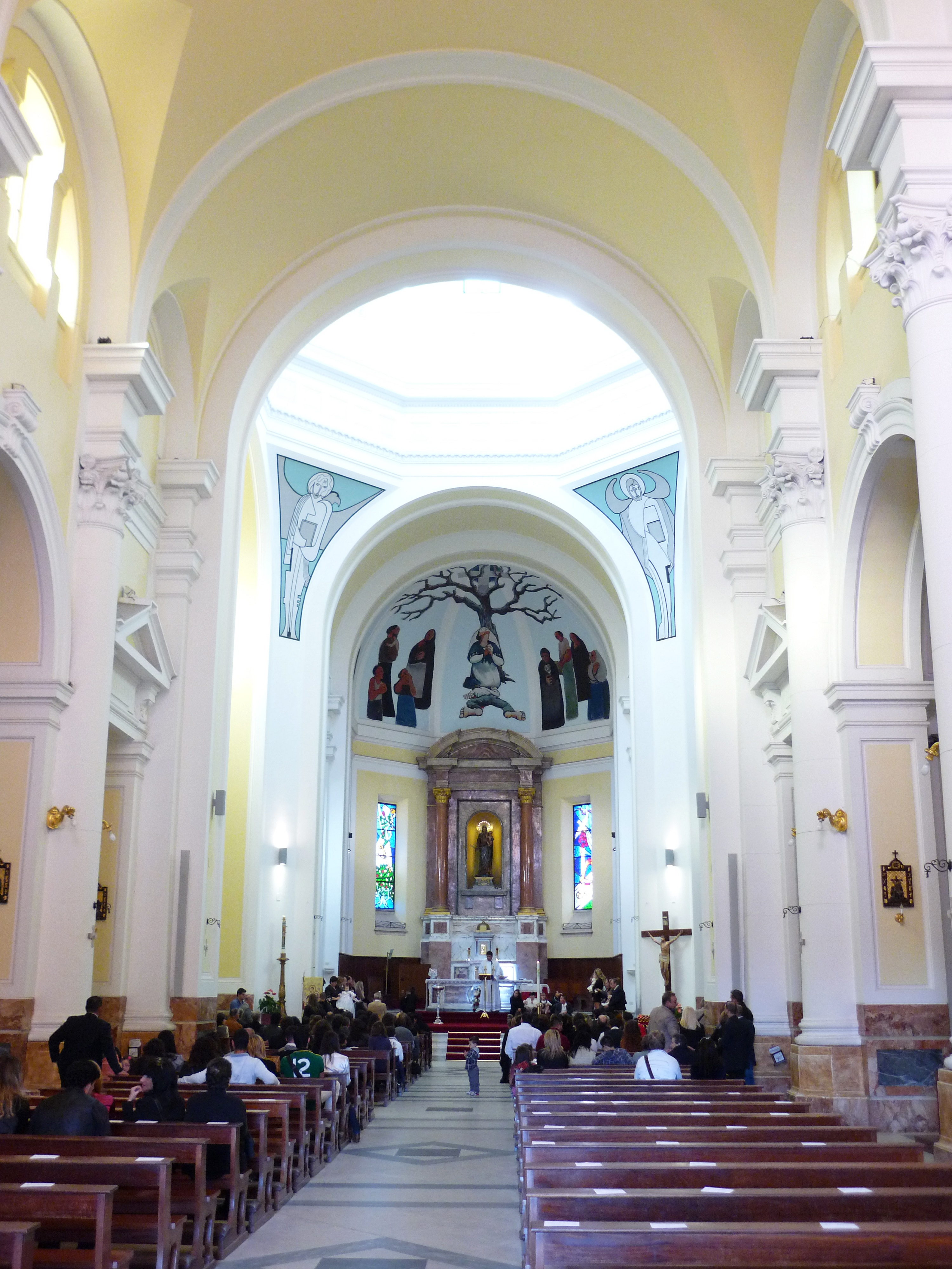 Interior of the church of Holy Mary Queen of Peace (Santa Maria Regina Pacis), Ostia, Italy